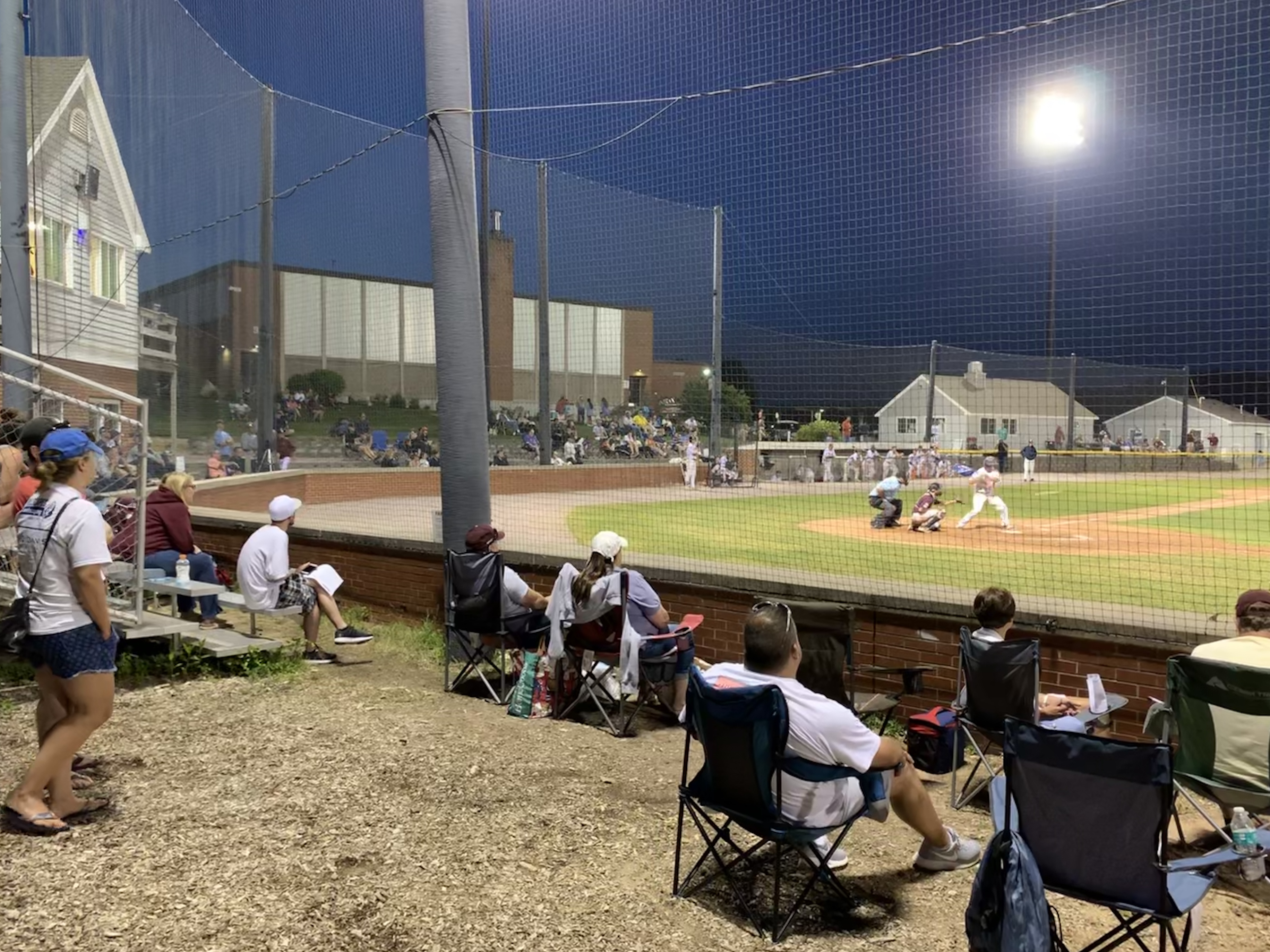 Cotuit Kettleers vs the Bourne Braves, July 13th, 2019